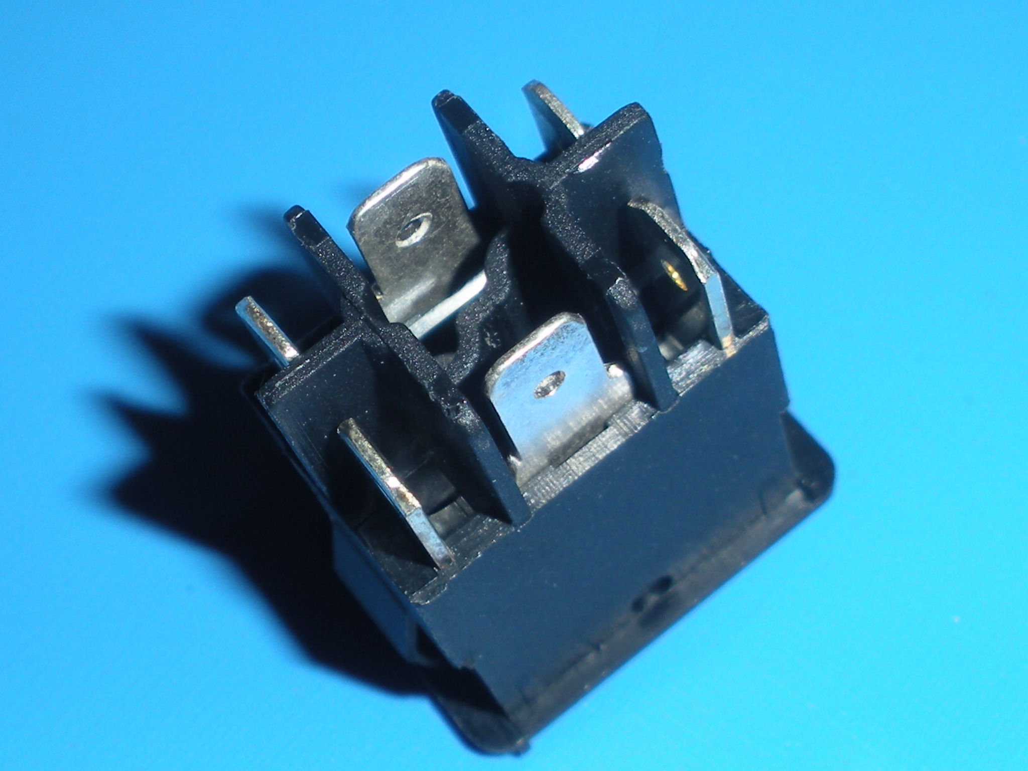 DPDT Switch